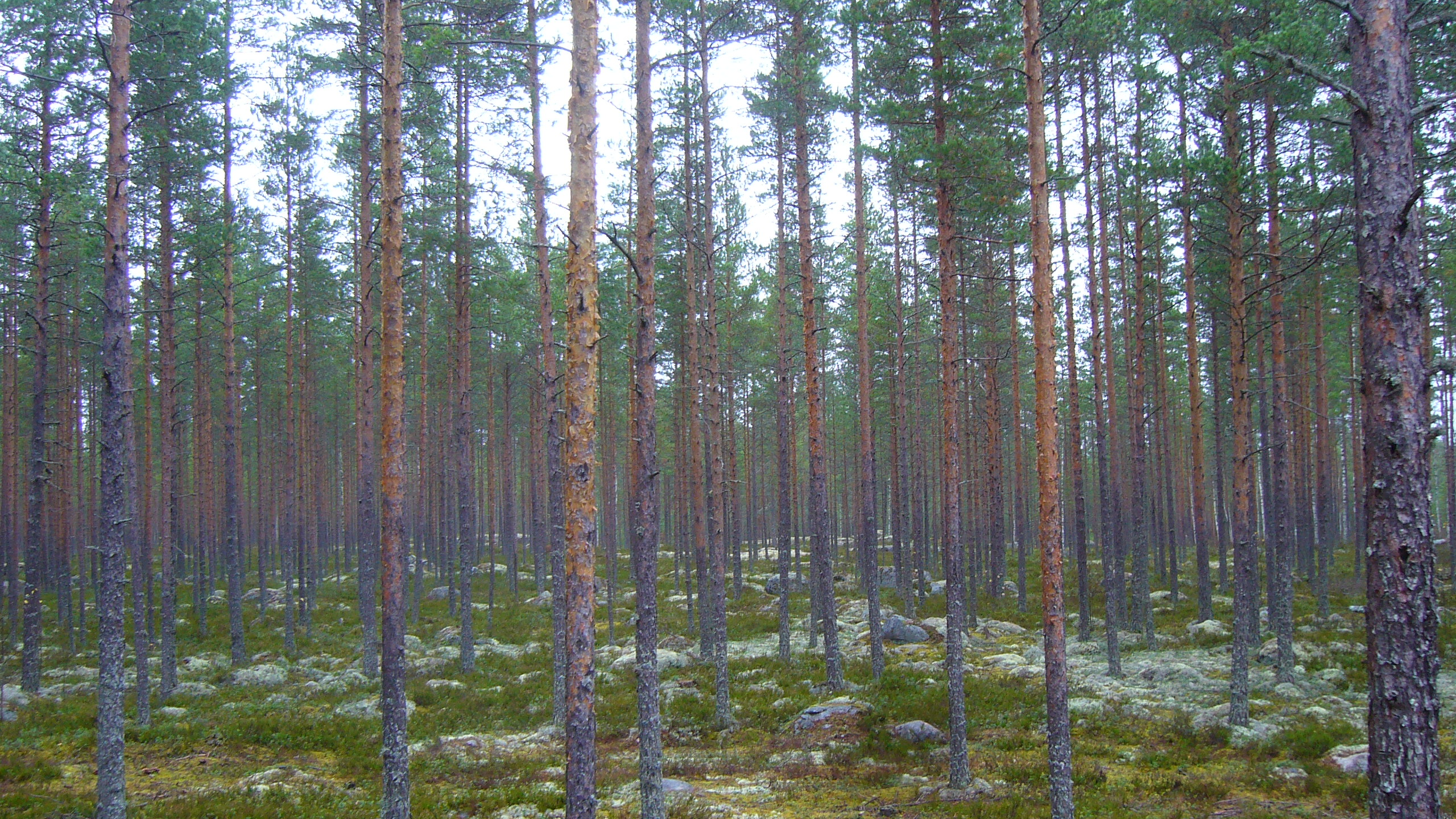 Forest in southwestern Jalasjärvi, Finland.